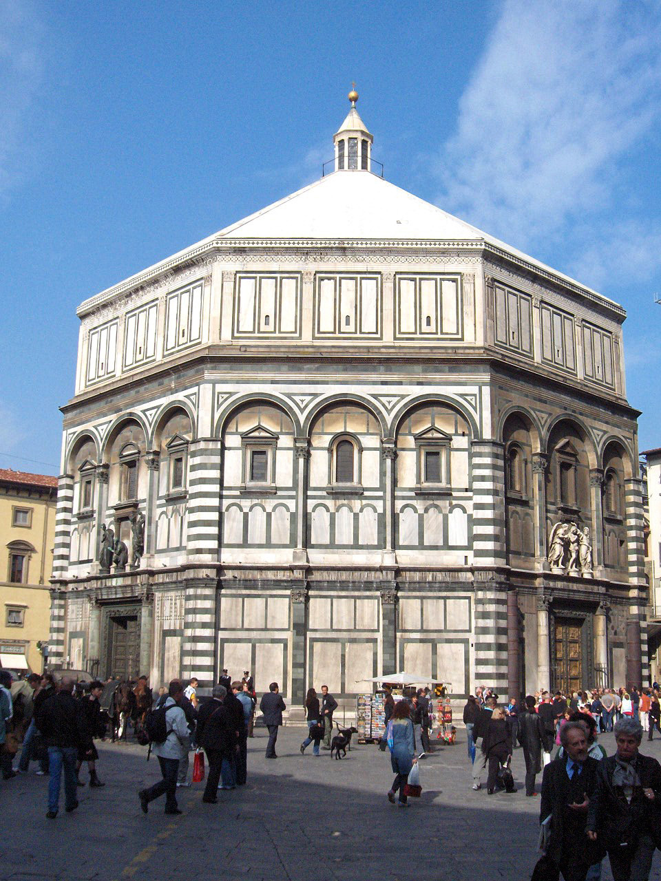 Baptistry of Firenze, Italy